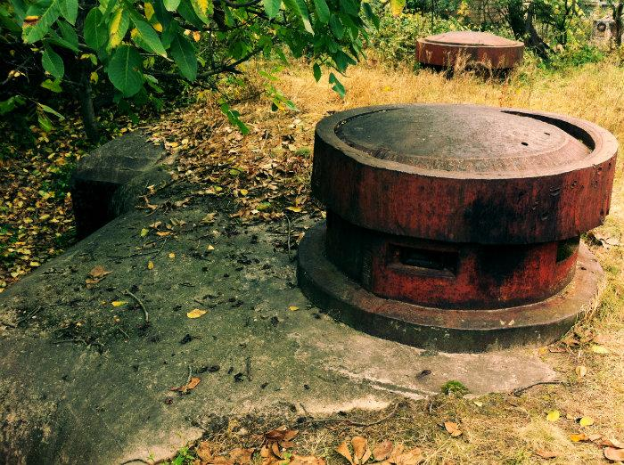 Pillbox 429 of Kyiv Fortified Region, Irpin, Kyiv Oblast, Ukraine